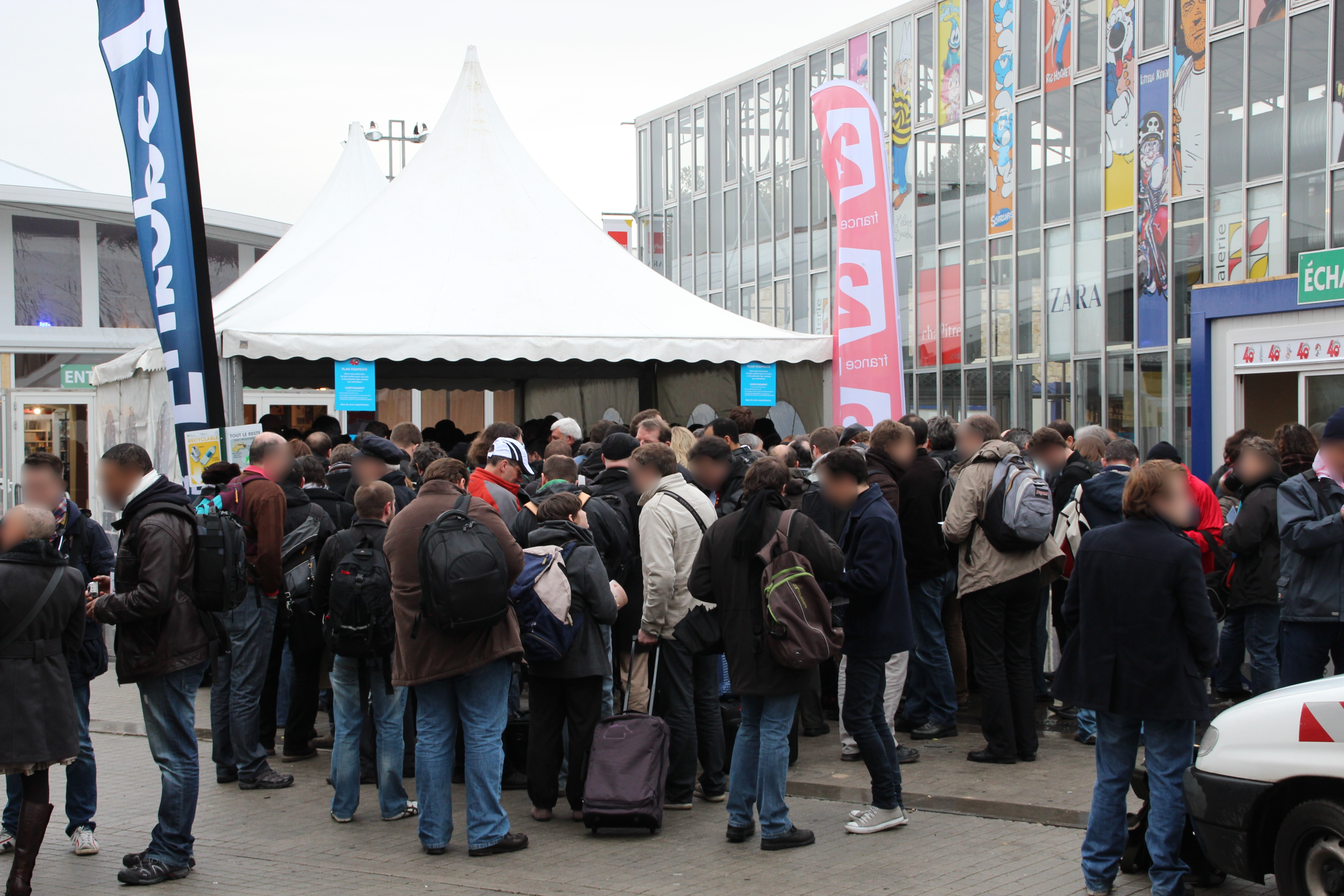 Angoulême International Comics Festival 2013.